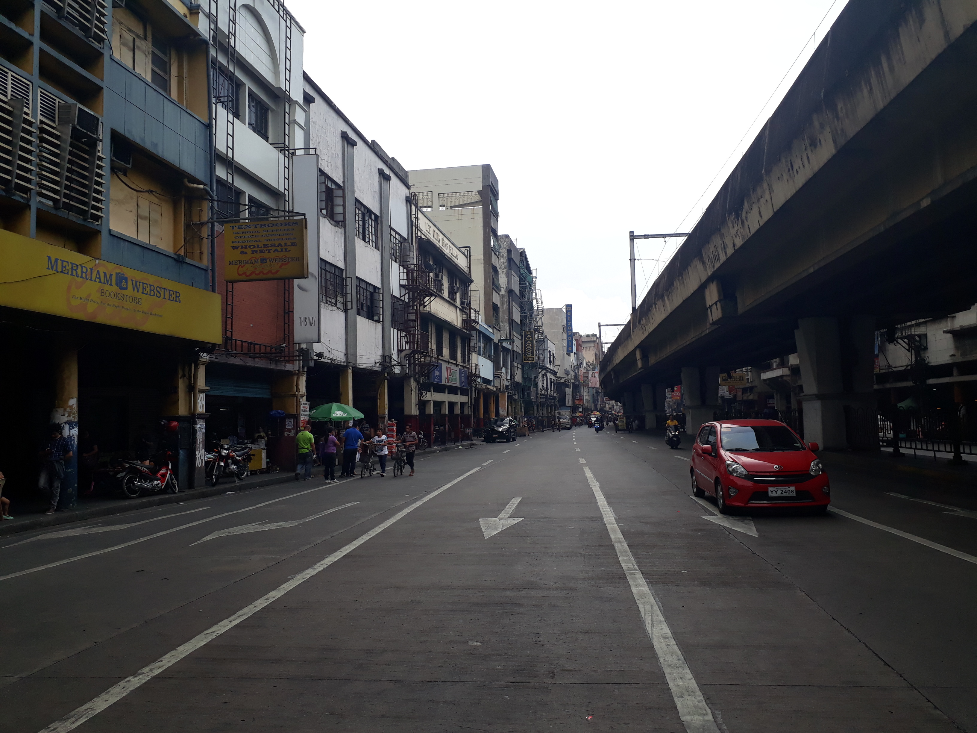 Rizal Avenue in Santa Cruz, Manila